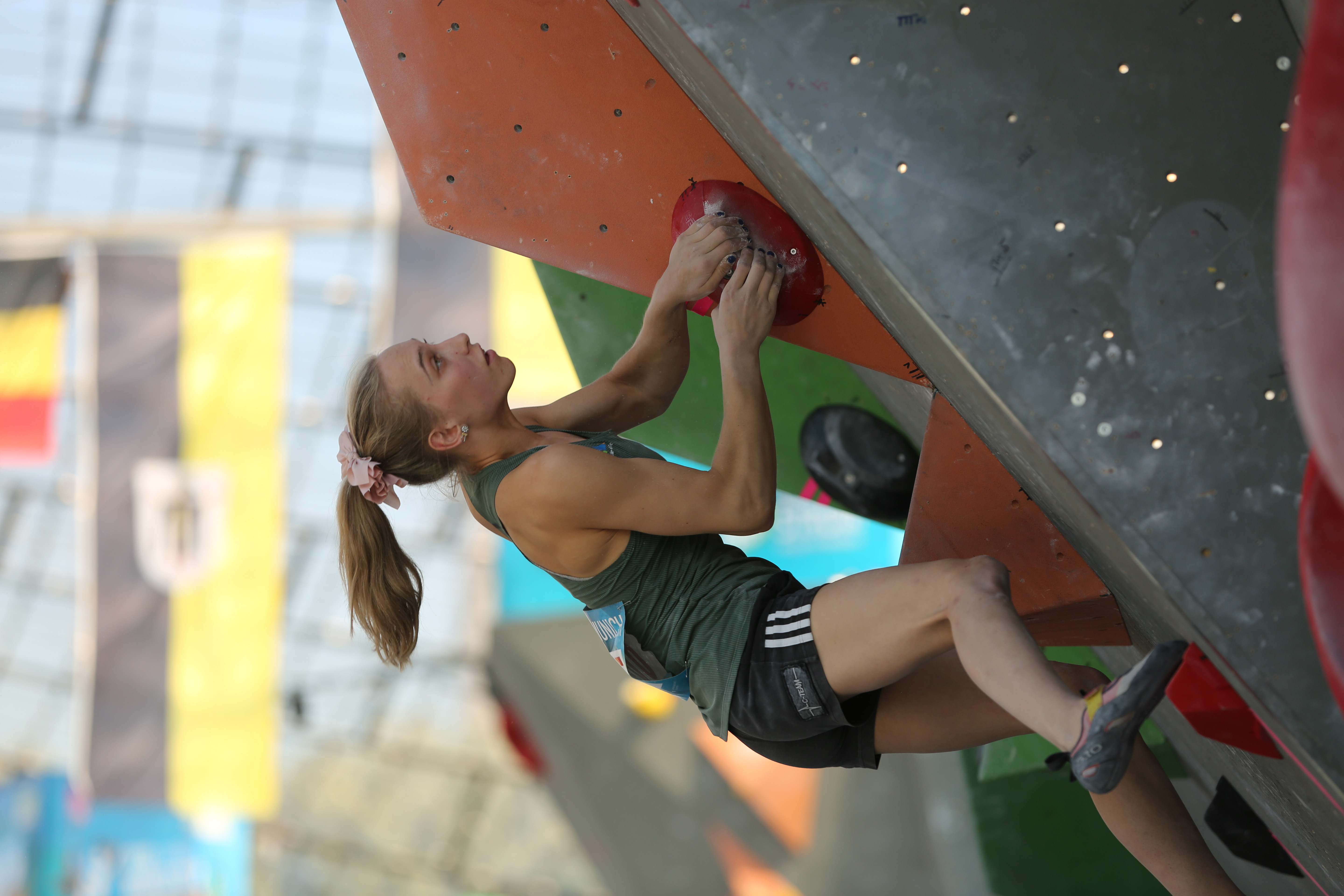 Janja Garnbret SLO at the Boulder Worldcup 2017 in Munich, Germany.